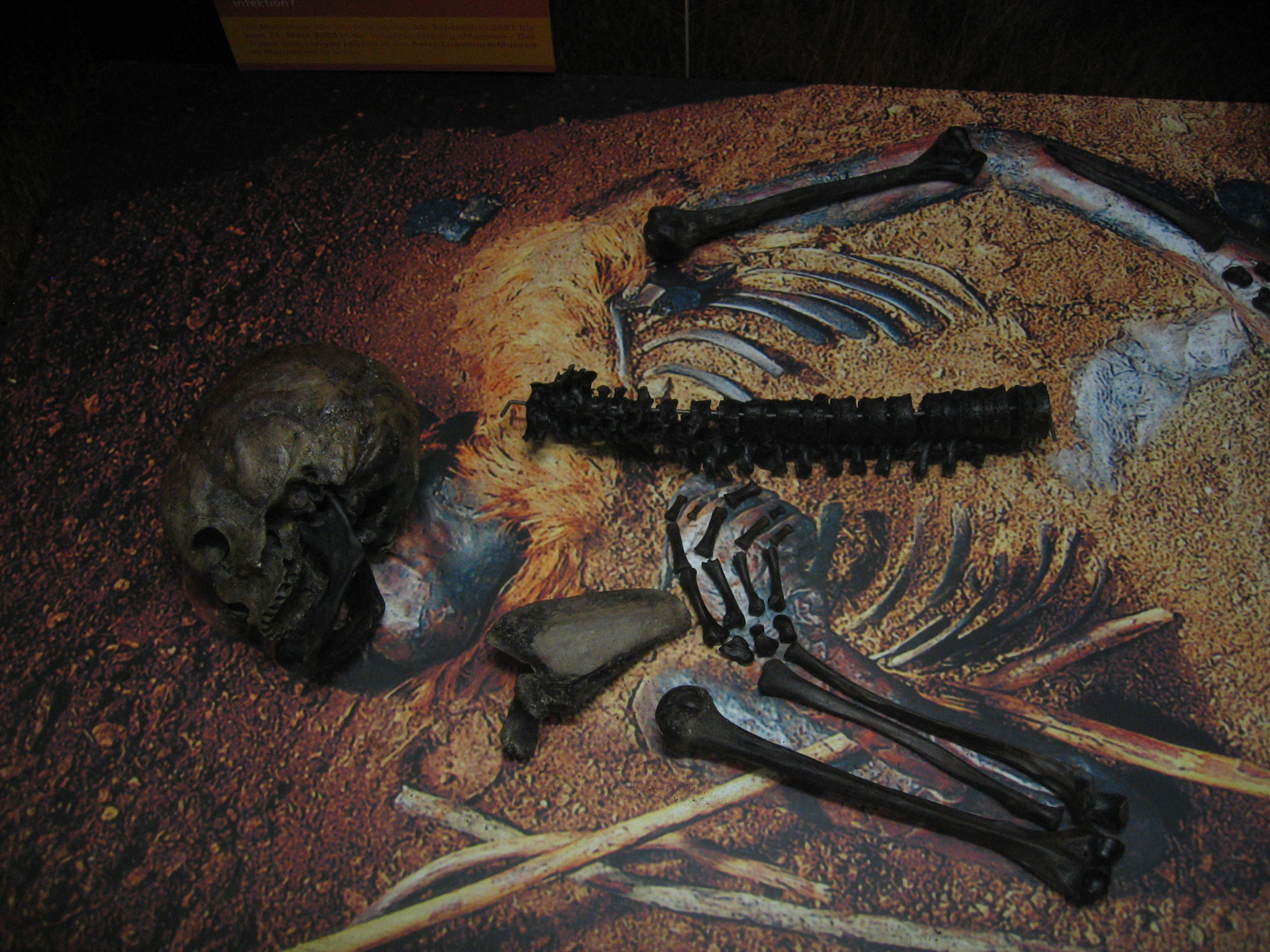 Bones of the bog body Windeby I temporarily on display at Archäologisches Landesmuseum Gottorf Castle, Schleswig Germany in November 2007. Found in 1952 in the Domslandmoor near Windeby. C14 dated beween 41 and 118 AD.